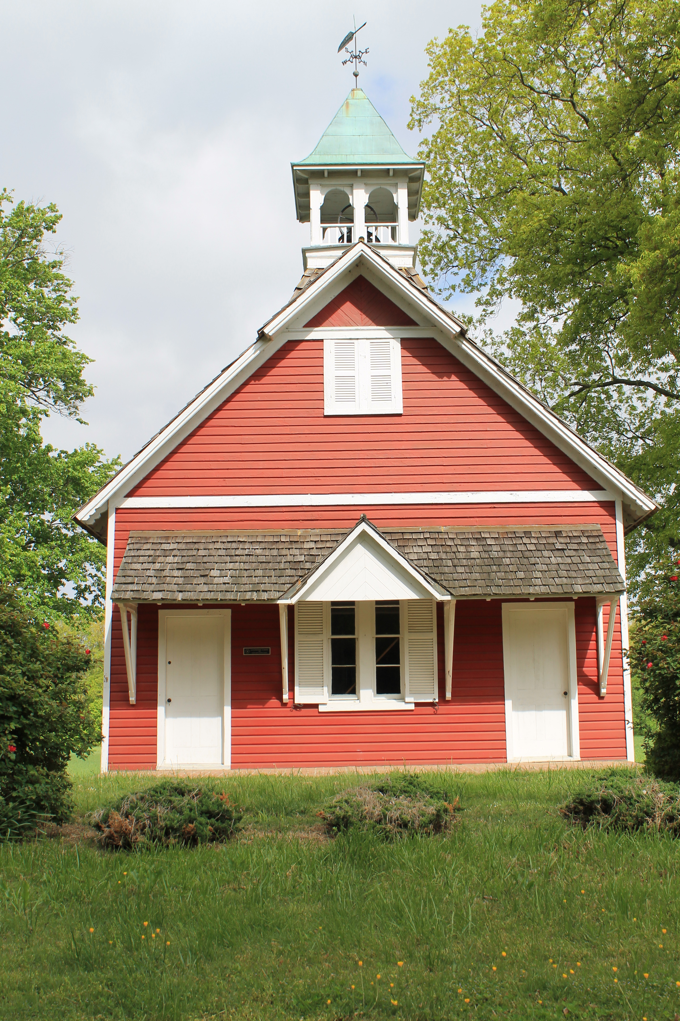 The front of Longwoods School House in Talbot County, Maryland.